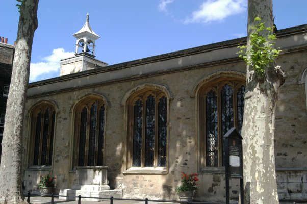 St. Peter's chapel, Tower of London (burial place of Lady Jane Grey, Anne Boleyn, others). Photo by Matt Hucke, 9 August 2006.